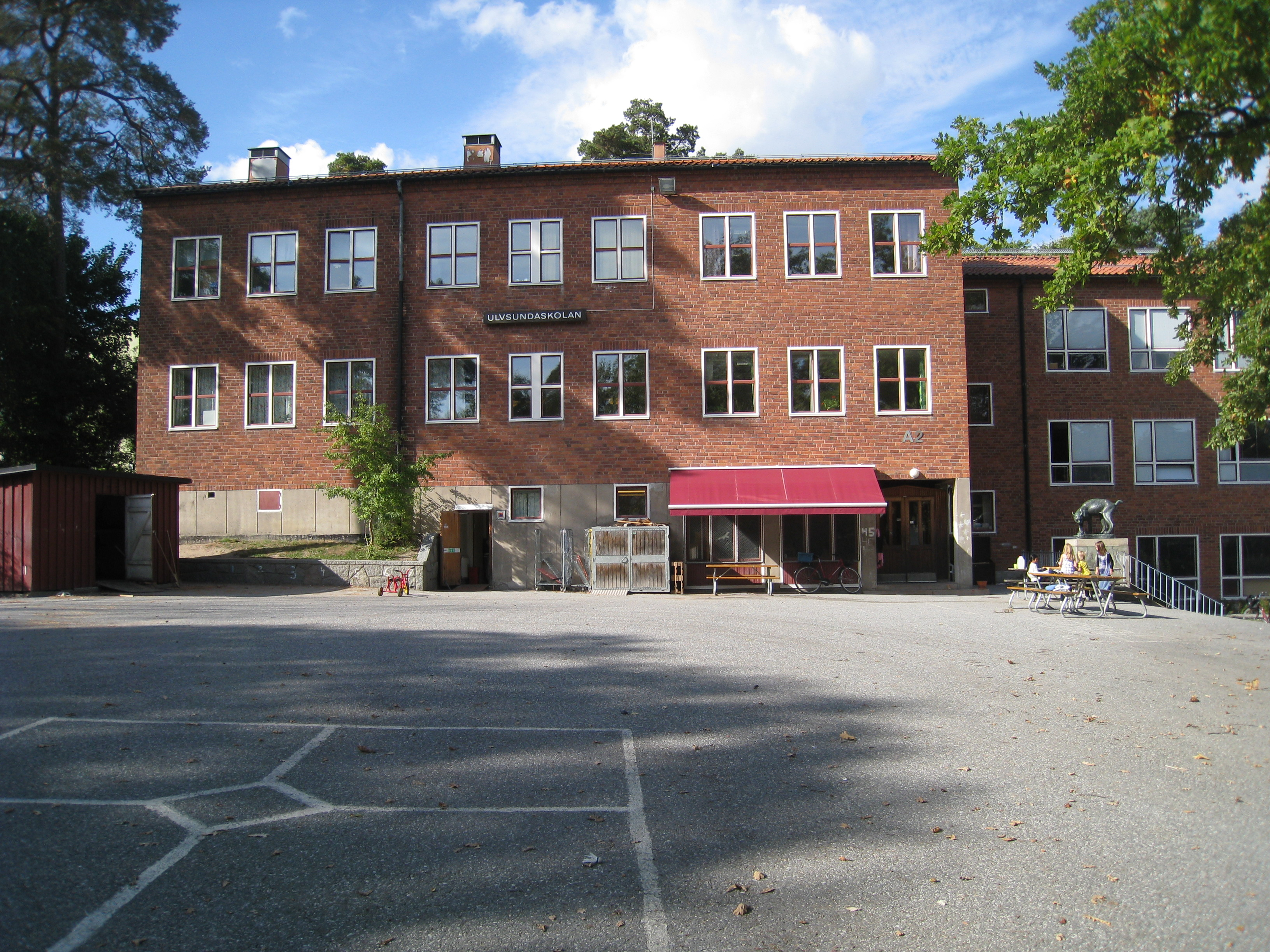 Ulvsundaskolan, Johannesfredsvägen 45 i Ulvsunda i Bromma. Arkitekt var Björn Hedvall och skolan byggdes 1948.